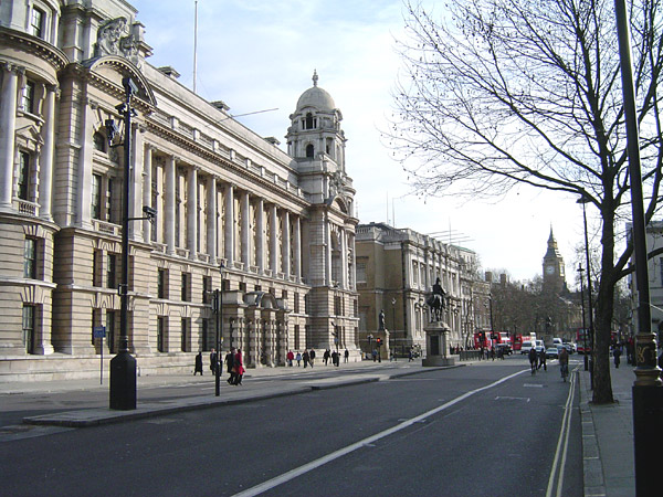 View of the Old War Office looking south along Whitehall, London